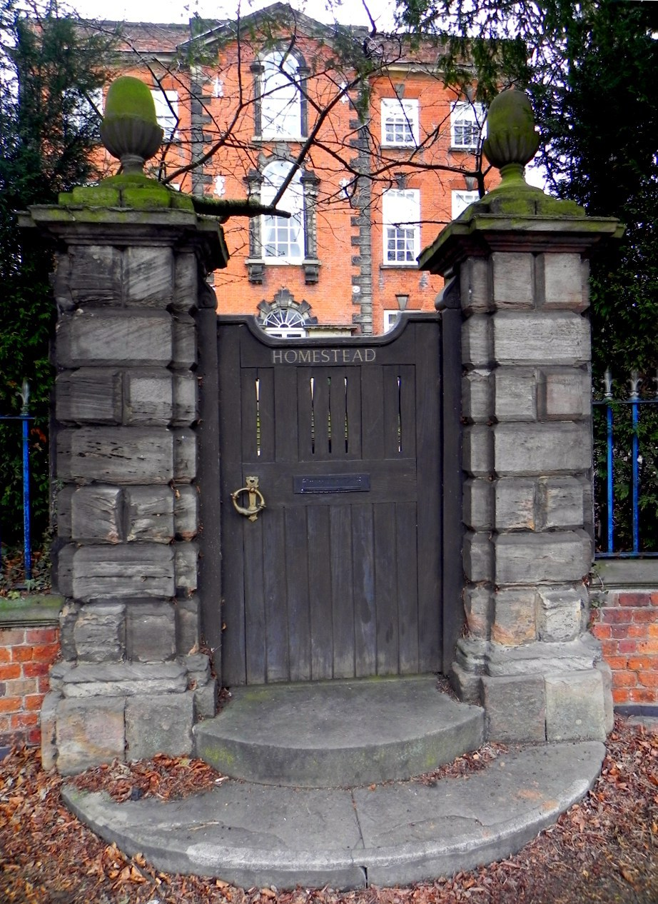 Rusticated millstone grit gate piers with acorn finials. The Homestead is a nine-bedroom Georgian house in the conservation area of Spondon. It is Grade I listed.